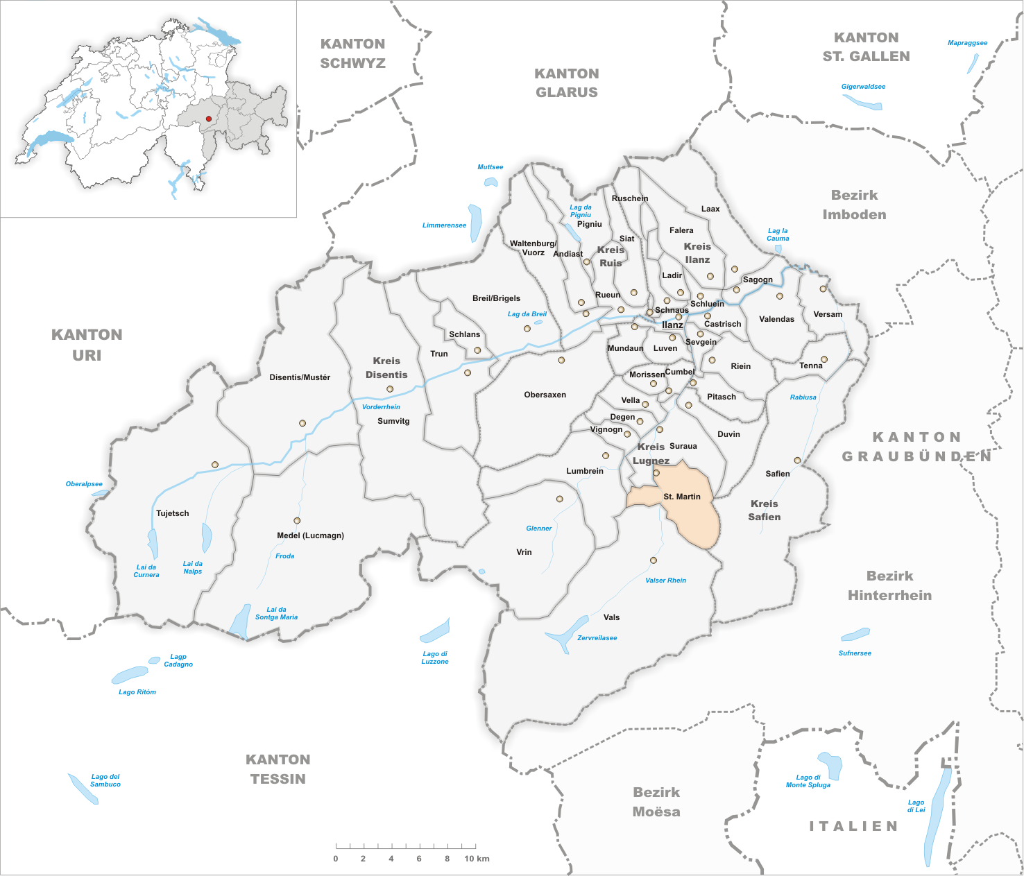 Municipality St. Martin